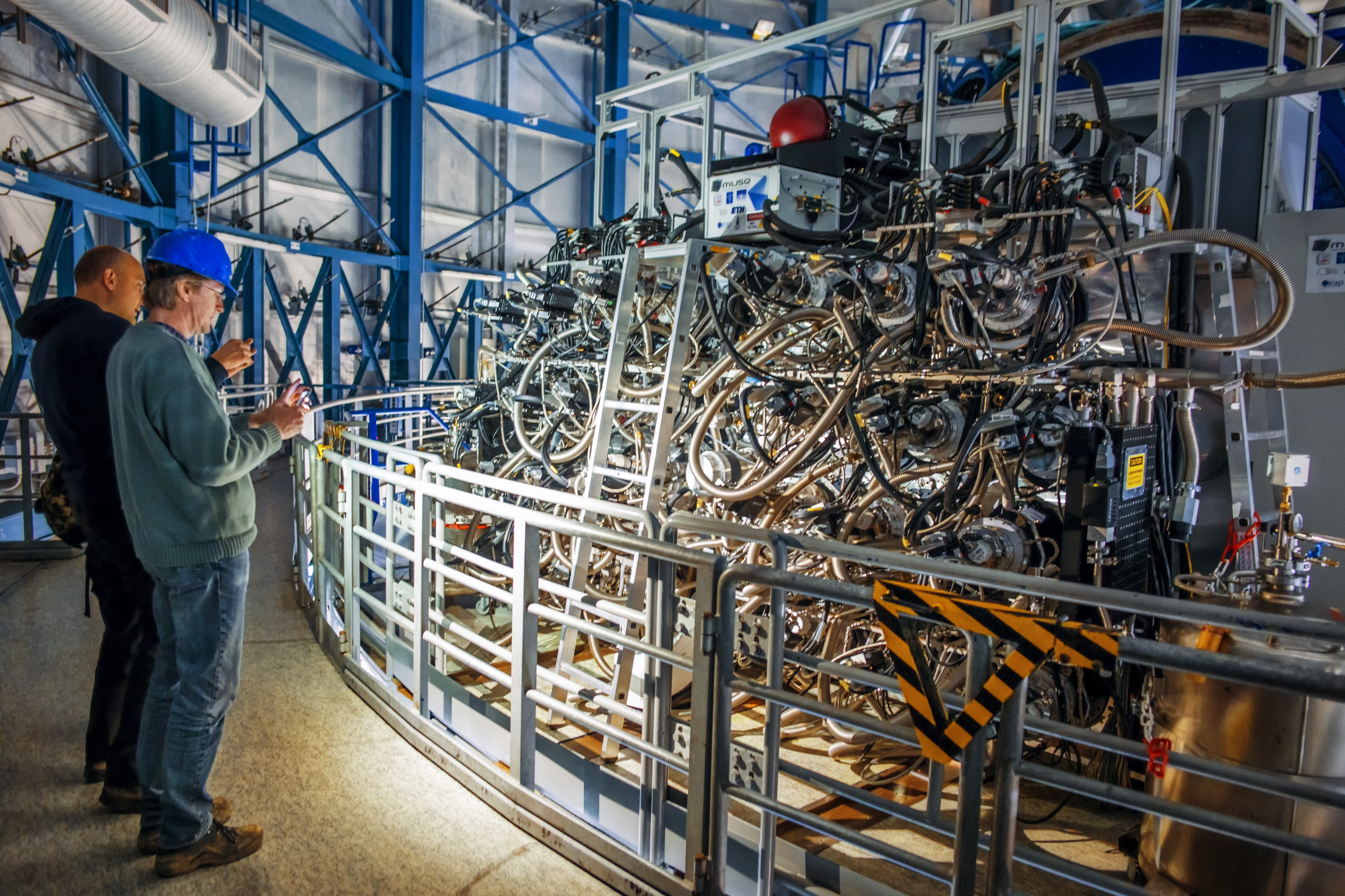 The intricate network of pipes surrounding the 24 spectrographs of the MUSE instrument on the VLT. The instruments complexity is equaled by its power and productivity.